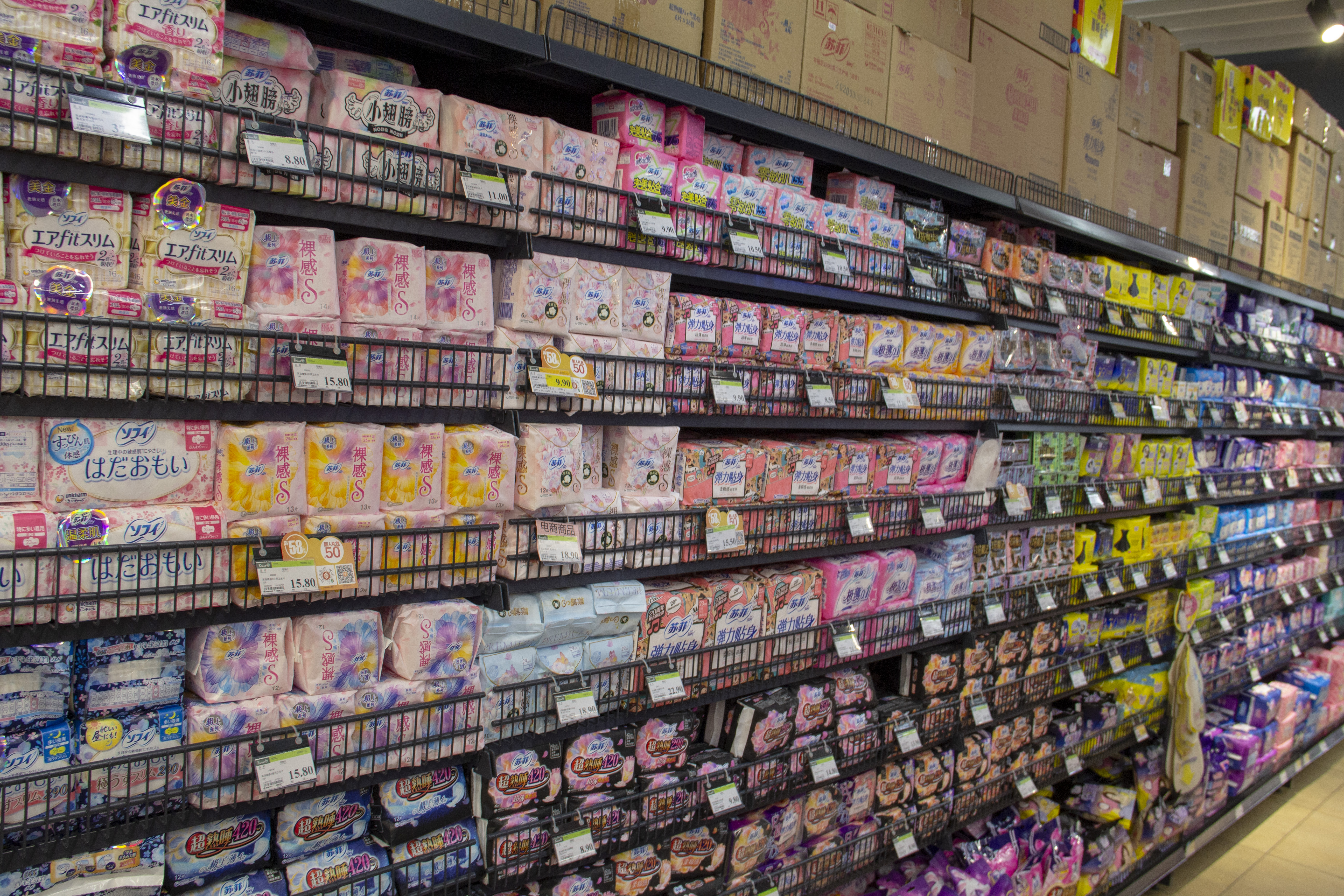 Sanitary towels on a shelf